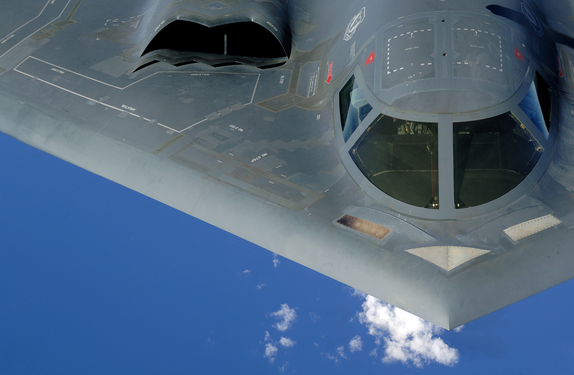 A B-2 Spirit soars after a refueling mission over the Pacific Ocean on Tuesday, May 30, 2006. The B-2, from the 509th Bomb Wing at Whiteman Air Force Base, Mo., is part of a continuous bomber presence in the Asia-Pacific region. (U.S. Air Force photo/Staff Sgt. Bennie J. Davis III)